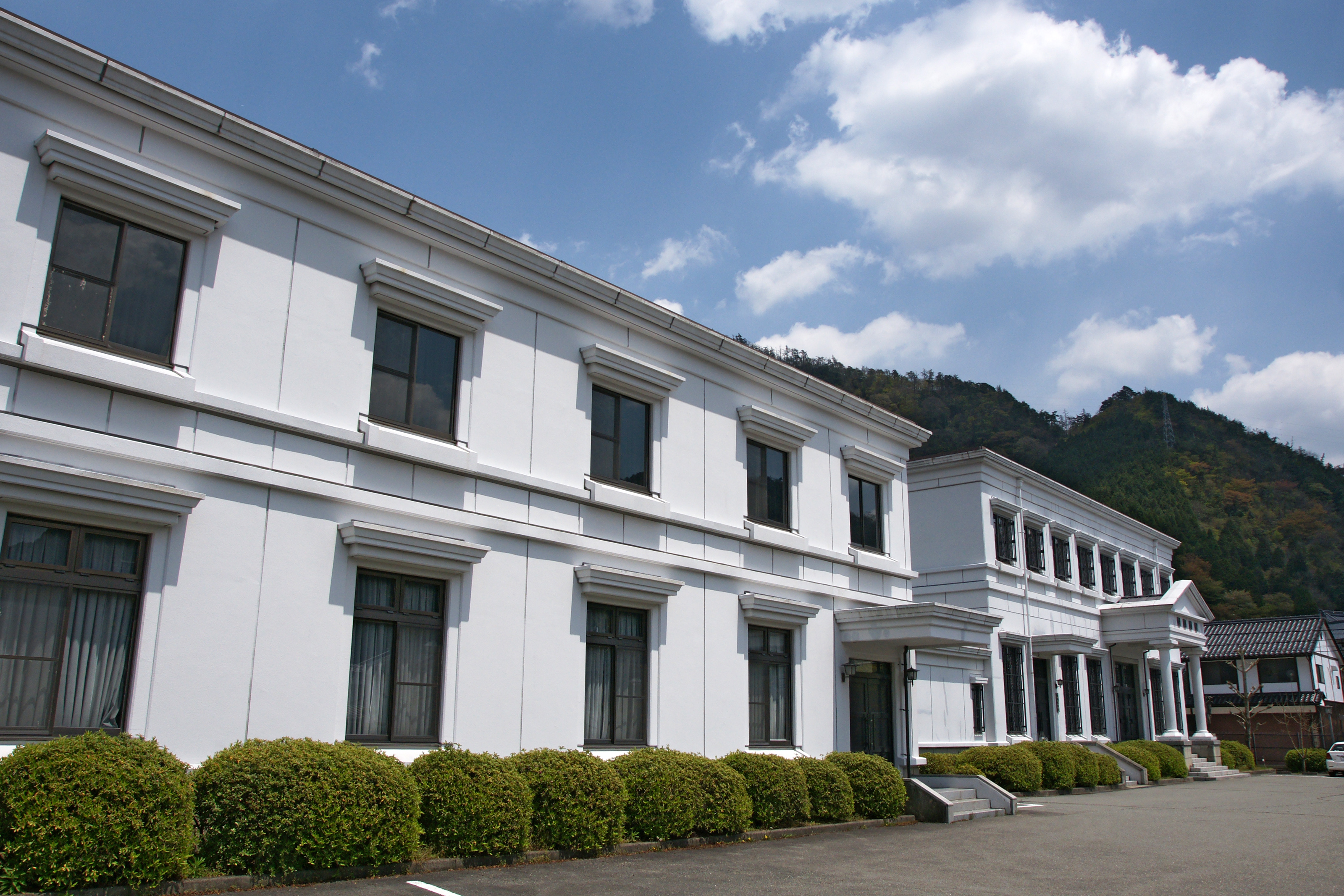 Tanyo Shinkin bank Hall (Tanyo Museum) in Kuchiganaya, Ikuno, Asago, Hyogo prefecture, Japan.